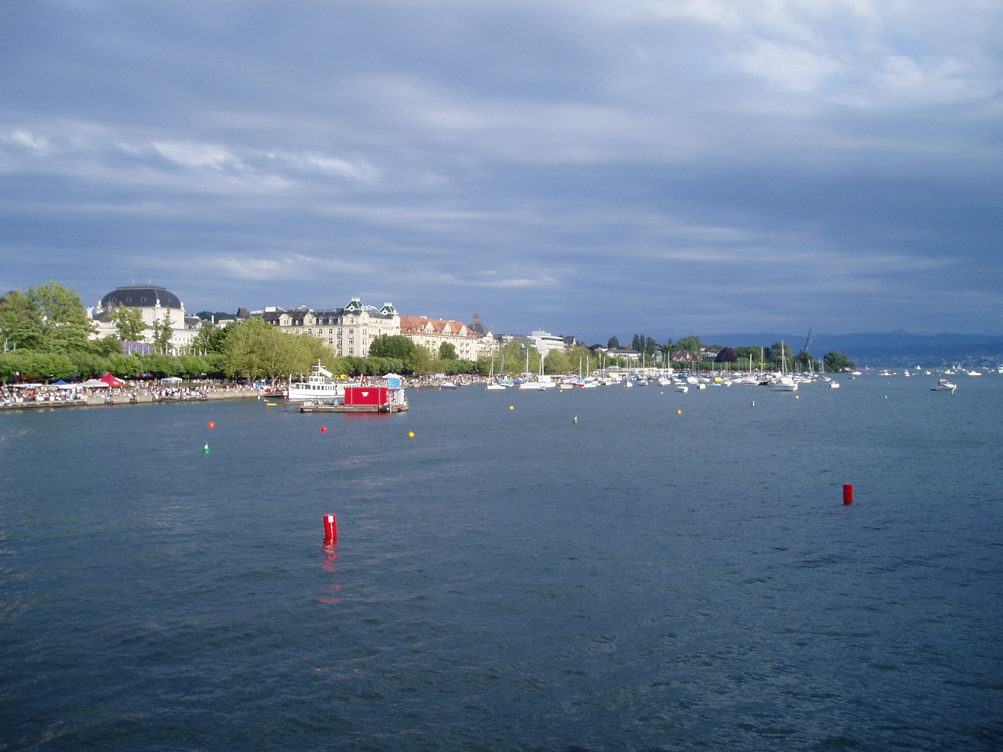 Lake Zurich during the "Zuerifescht" (city party which takes place every three years)